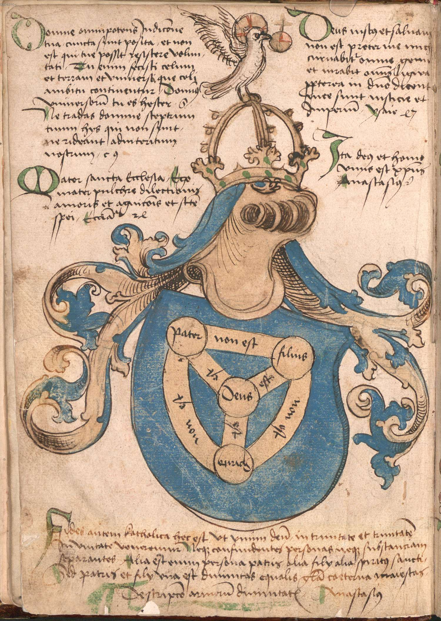 Version of the Shield of the Trinity diagram as part of a whole heraldic "achievement" considered to be the coat of arms of God (with helm, mantling, crown, and crest with dove of the Holy Spirit), from the late 15th-century Wernigerode/Schaffhausen armorial.